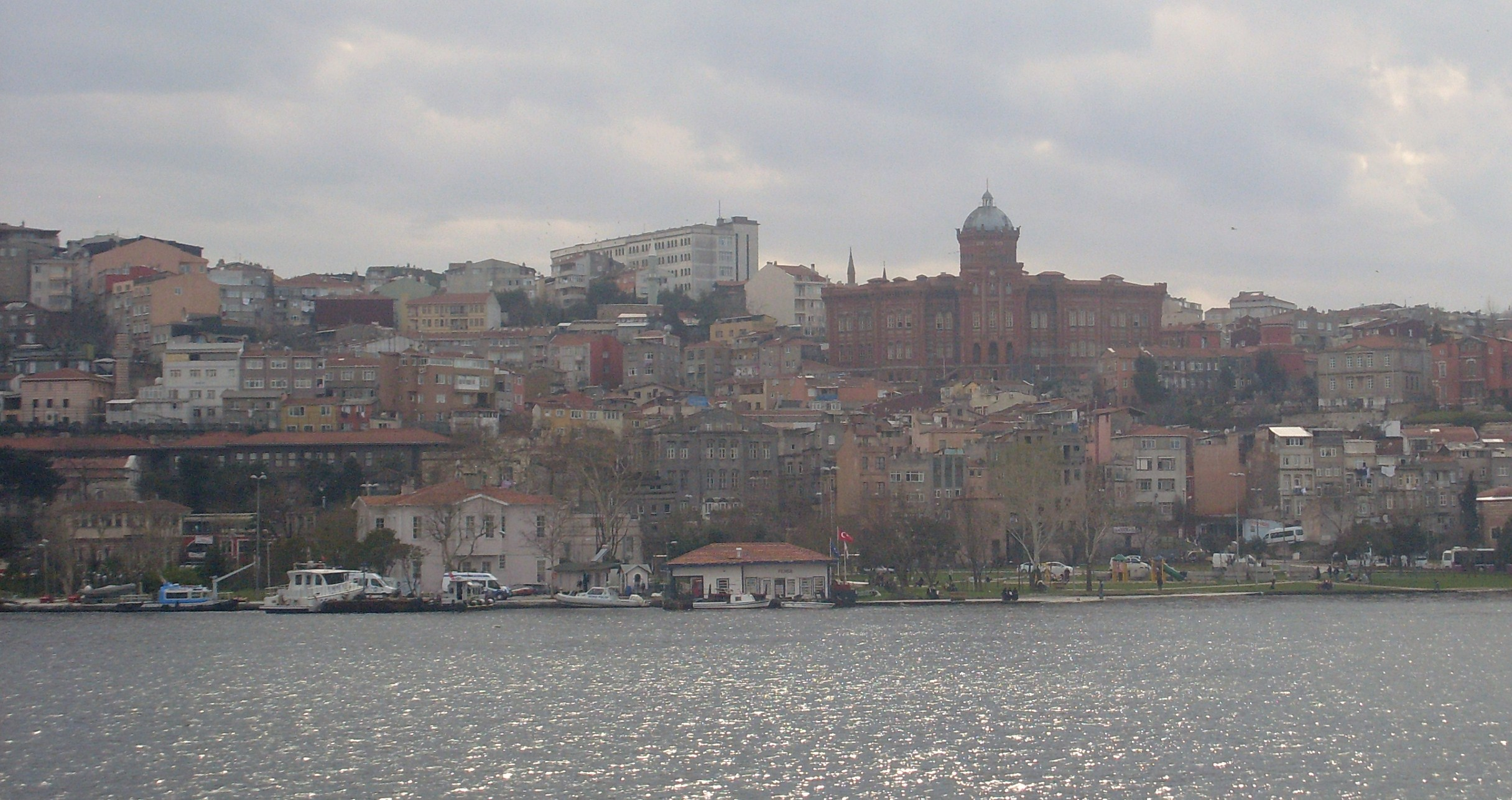 İstanbul - Fener - Mart 2013